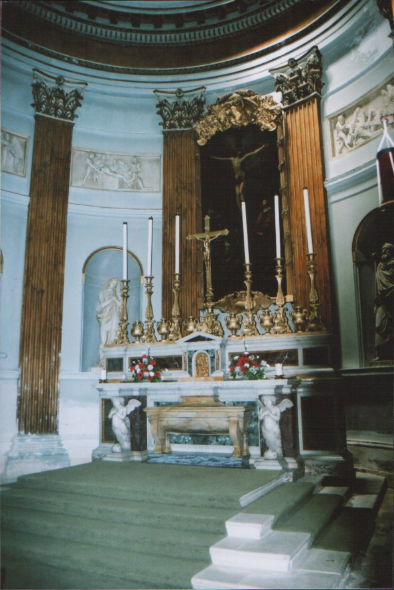 High Altar of St Mary the Virgin and St Everilda's Roman Catholic Church, Everingham, East Riding of Yorkshire, England. I took the photograph.